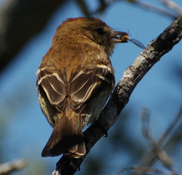 Myiophobus fasciatus MOSQUETA ESTRIADA